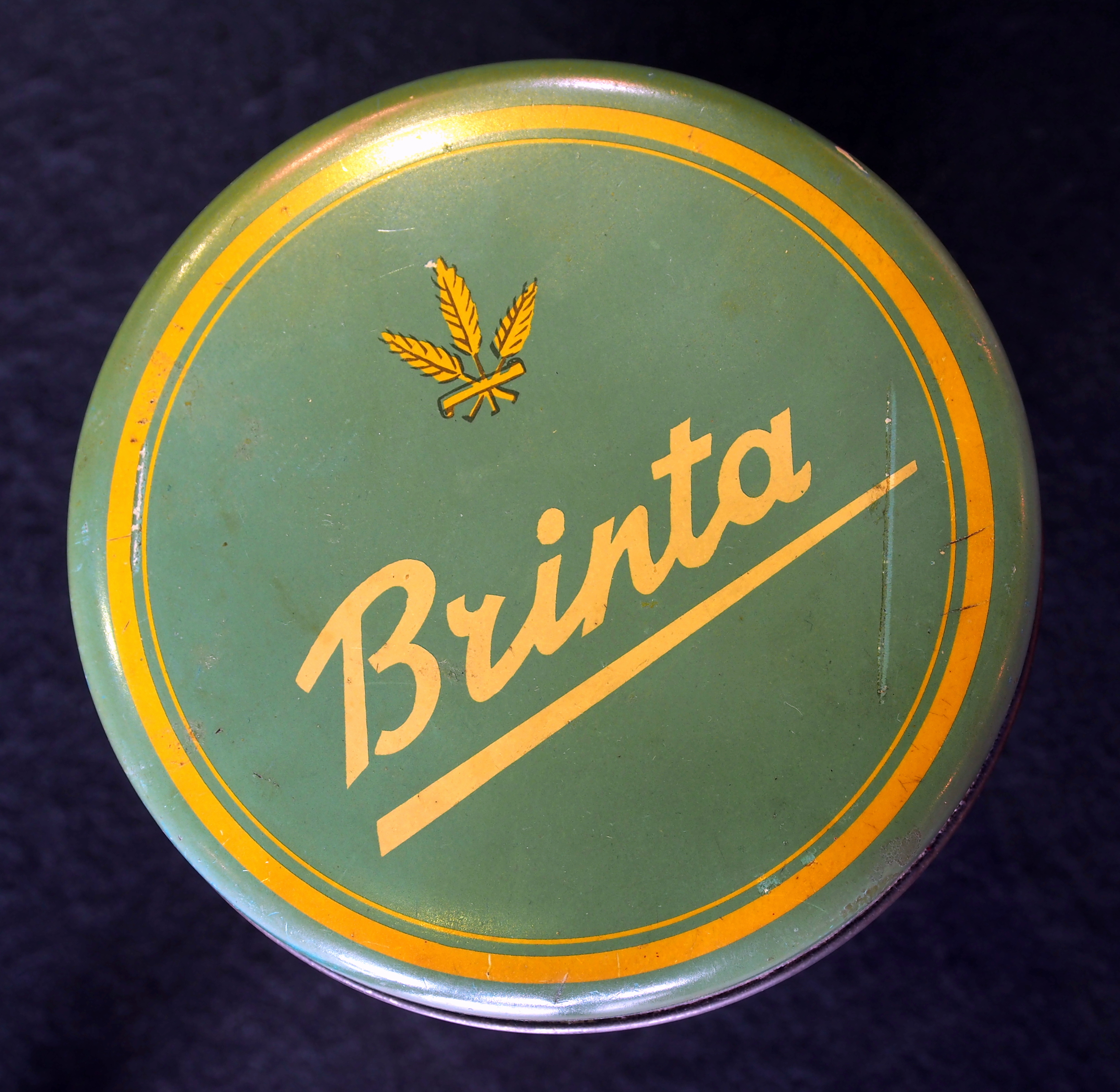 Very old product that is not produced and not sold any more. Note that some tins may look the same, but when looked for carefully there are some slight differences! For more info see tincollectors.nl or